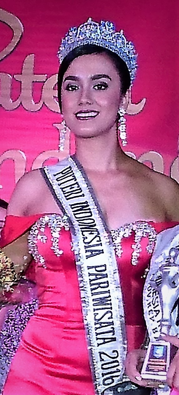 Intan Aletrino, Puteri Indonesia Pariwisata (Princess of Indonesia Tourism, beauty contest) 2016, attends the crowning of the Puteri Indonesia candidate from Bangka Belitung (abbreviated Babel) 2017. Note that despite the Indonesian text saying 2015 and 2016, this is the 2016 contest to select the 2017 candidate, as may be seen from the fact that the 2016 Puteri Indonesia Pariwisata winner is attending the contest.